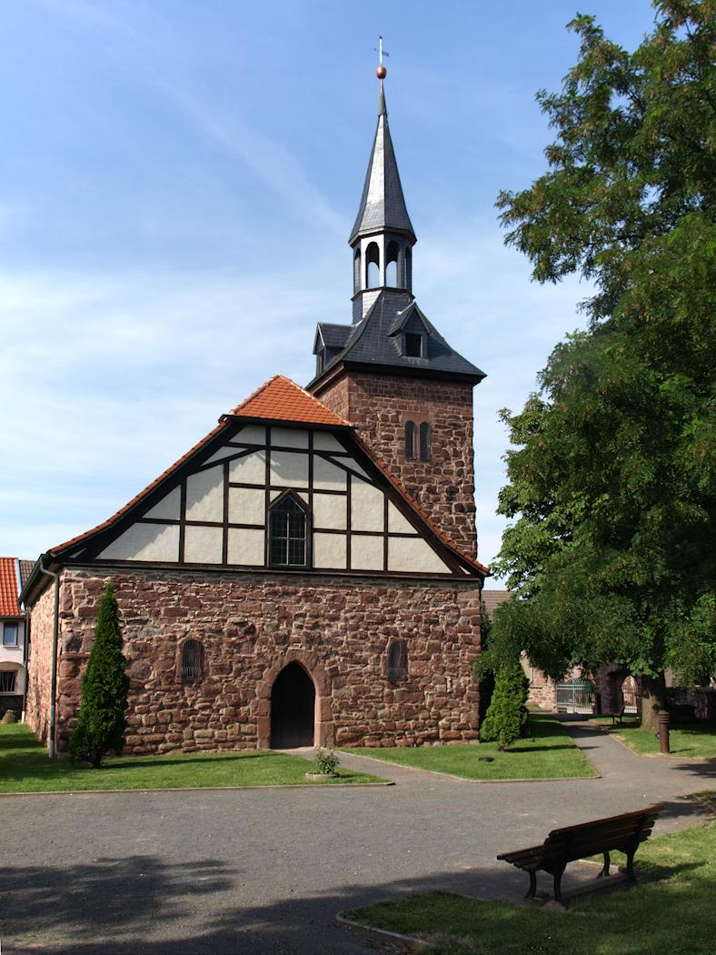 Kelbra , (Saxony-Anhalt , Germany), Martini-church, photo 2009